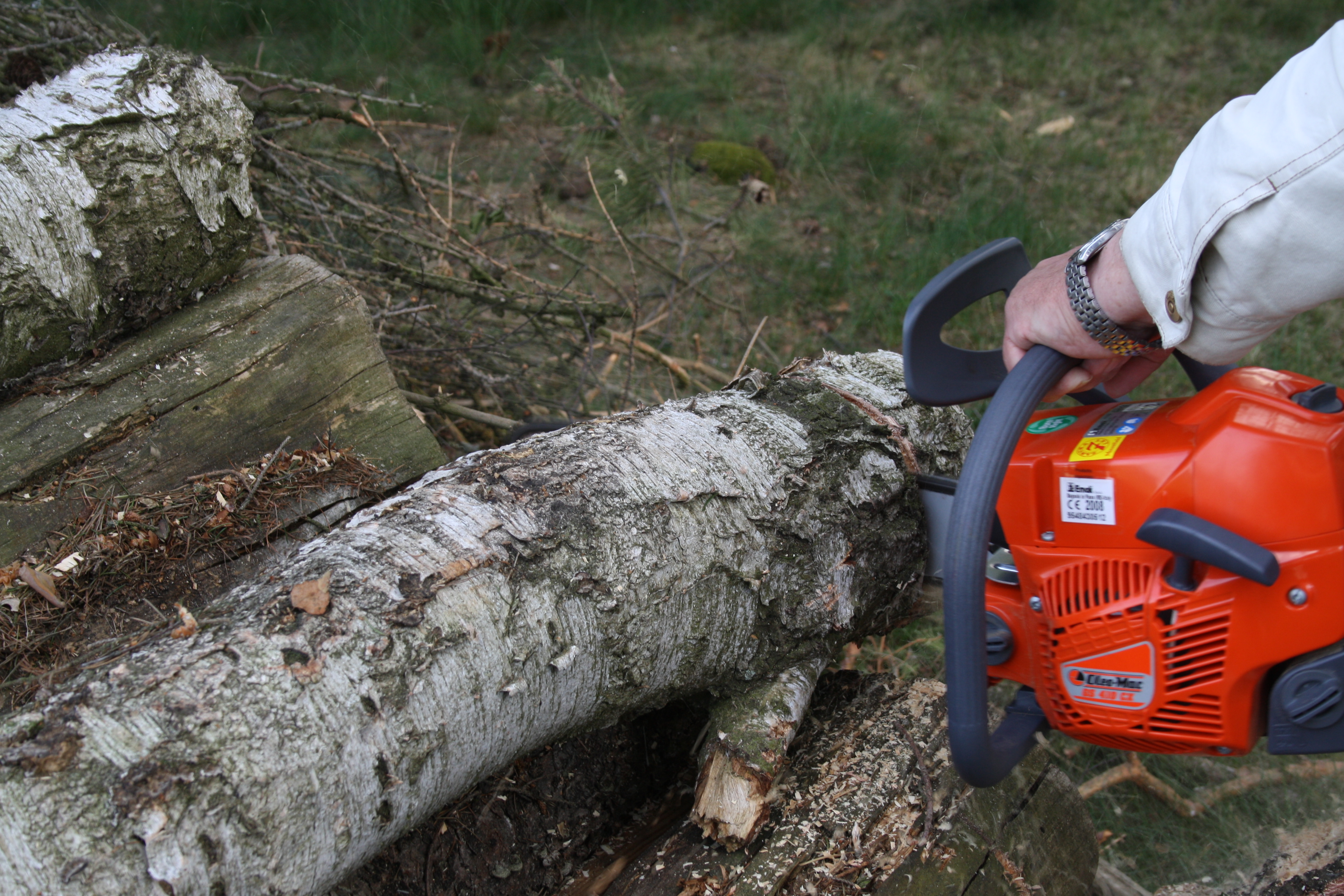 Oleo-Mac chainsaw cutting birch tree.